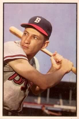 1953 Bowman Color baseball card of Jack Daniels of the Boston Braves #83. PD-not-renewed.